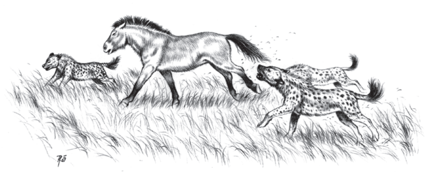 Artistic depiction of cave hyenas chasing Przewalski horse